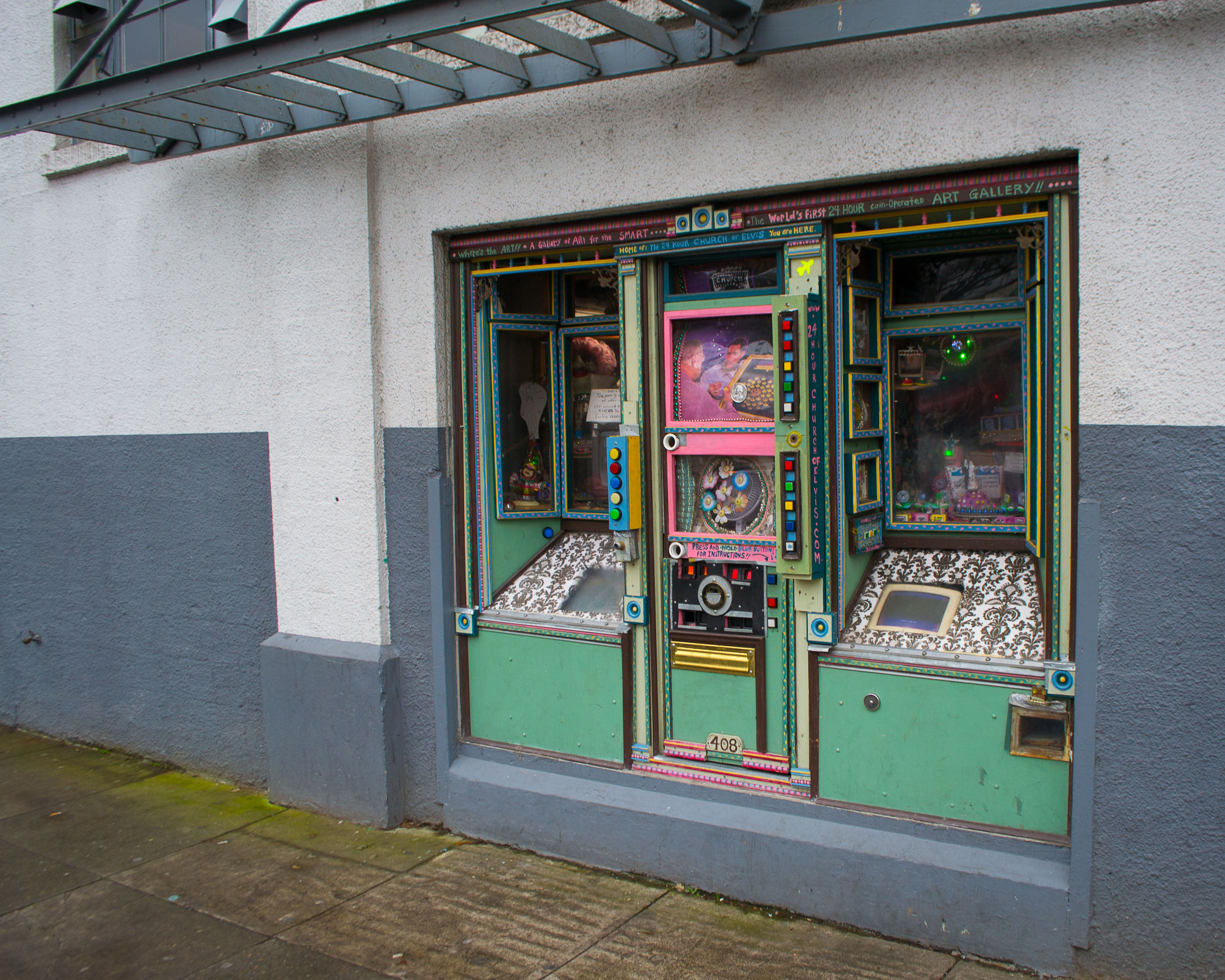 409 Northwest Couch Street, Portland, Oregon